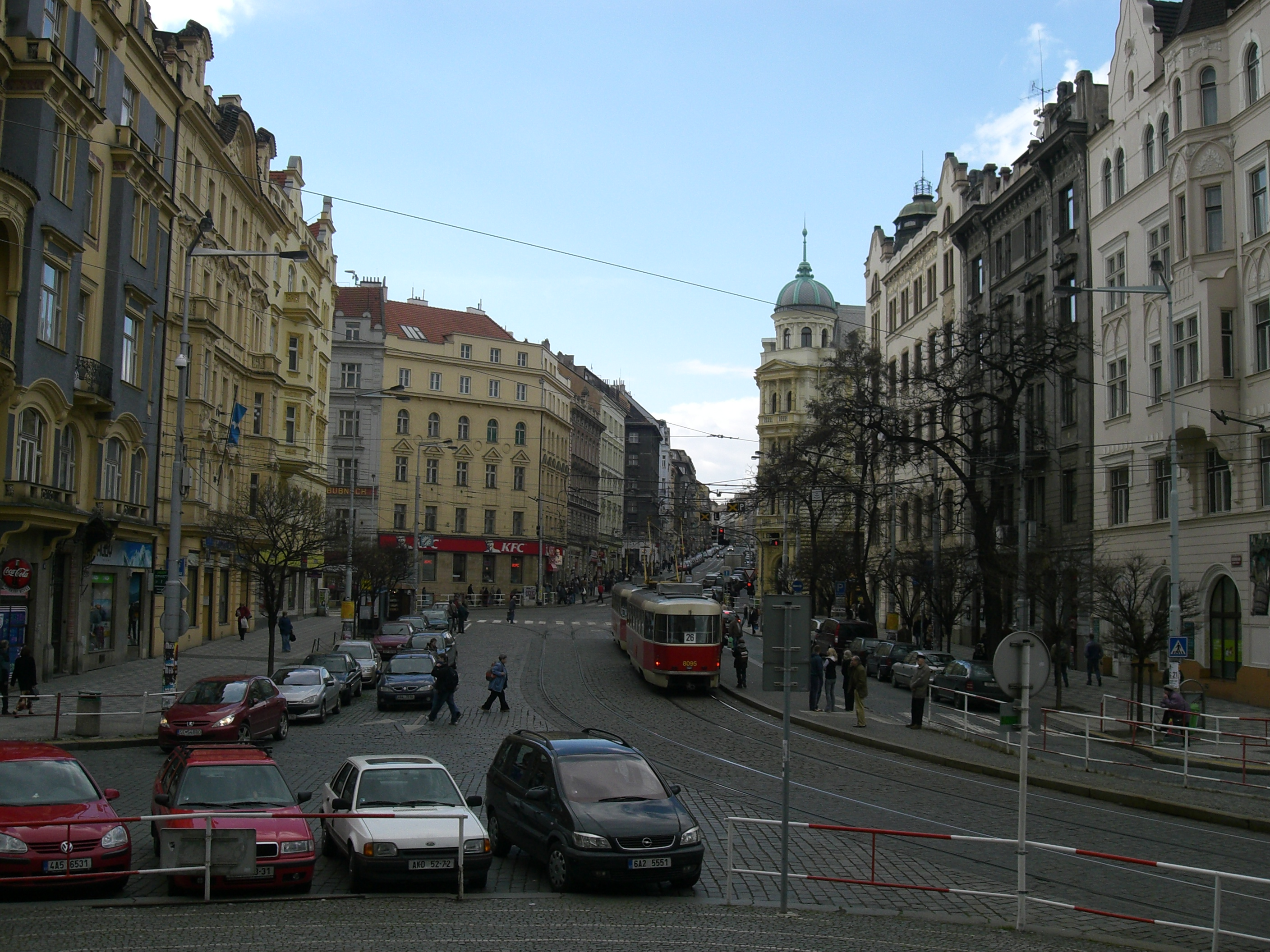 Strossmayer square, sight to street from church, Prague, Czech Republic.